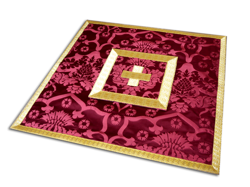 Chalice veil